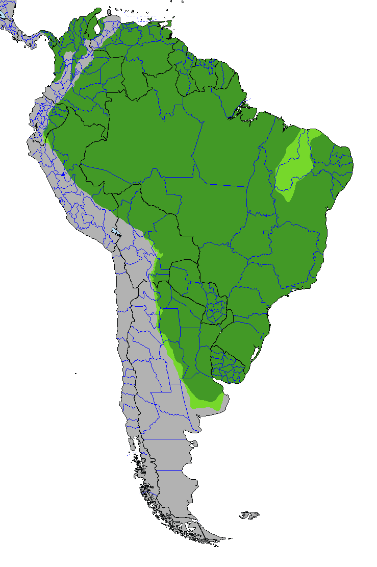 self made with Image:BlankMap-World.png